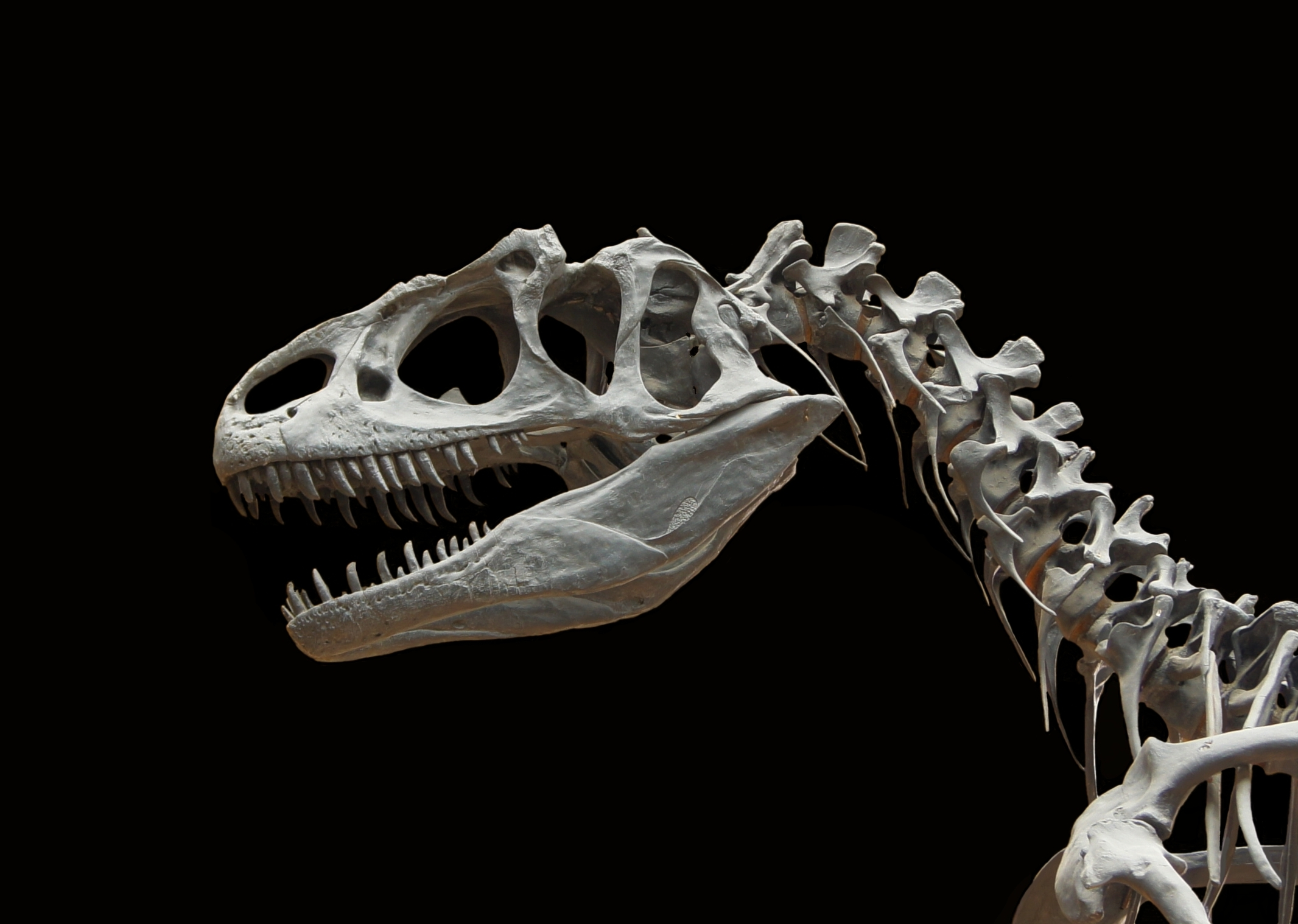 Allosaurus fragilis skeleton cast in the galerie de Paléontologie (Paleontology Hall) in the Muséum national d'histoire naturelle (French National Museum of Natural History, in Paris, France). American paleontologist Jim Madsen of the University of Utah sent this plaster-cast specimen to the French Muséum in 1976 as planned after the "University of Utah Cooperative Dinosaur Project" agreements had been reached between both institutions (the project spanned from 1960 to 1976). The original fossilised bones used to produce the copy belonged to at least 44-46 individuals found disarticulated in the Cleveland-Lloyd Dinosaur Quarry, Utah, among some other dinosaur species, also disarticulated. This huge bone bed, the Cleveland-Lloyd Dinosaur Quarry, is dated back to the Late Jurassic, about 150 million years ago.